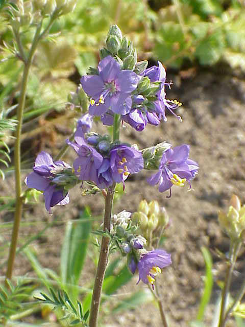 Species: Polemonium carneum Family: Polemoniaceae Image No. 1